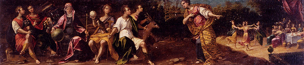 Allegorical Figures Of Fidelity, Abundance, Fame And Vanity With A Banquet Beyond